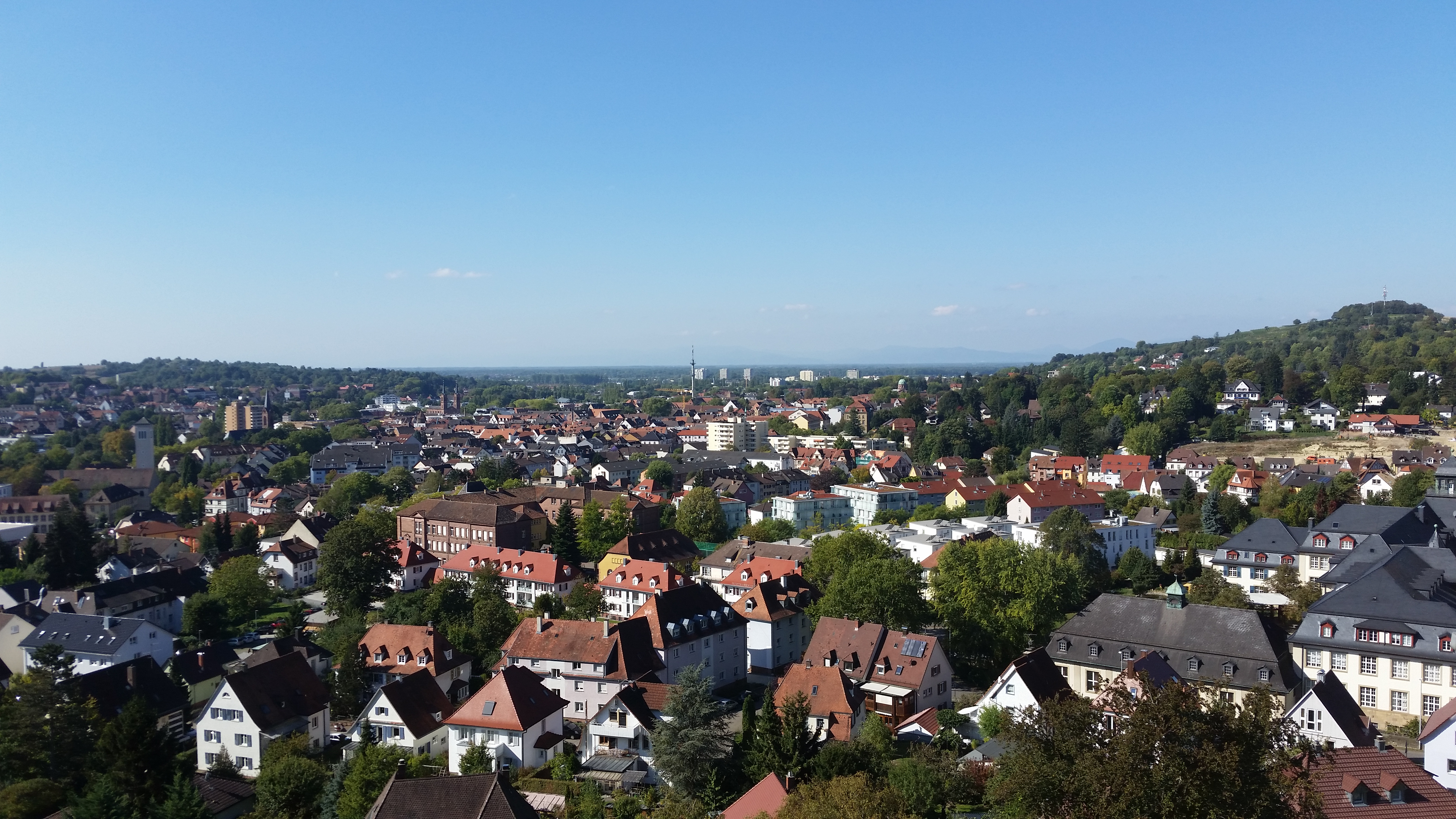 City of Lahr (Black Forest) as seen from the hospital